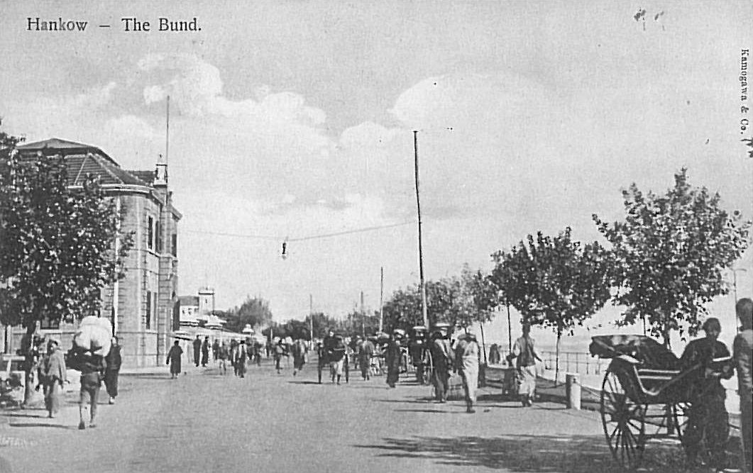 Hankow The Bund